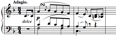 Excerpt from Beethoven's Sonata No.1 Mvt. 2 (Op. 2, No. 1)